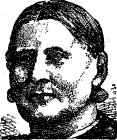 Lovisa Åhrberg, Sweden's first female surgeon, picture from Svenskt biografiskt handlexikon (1906)